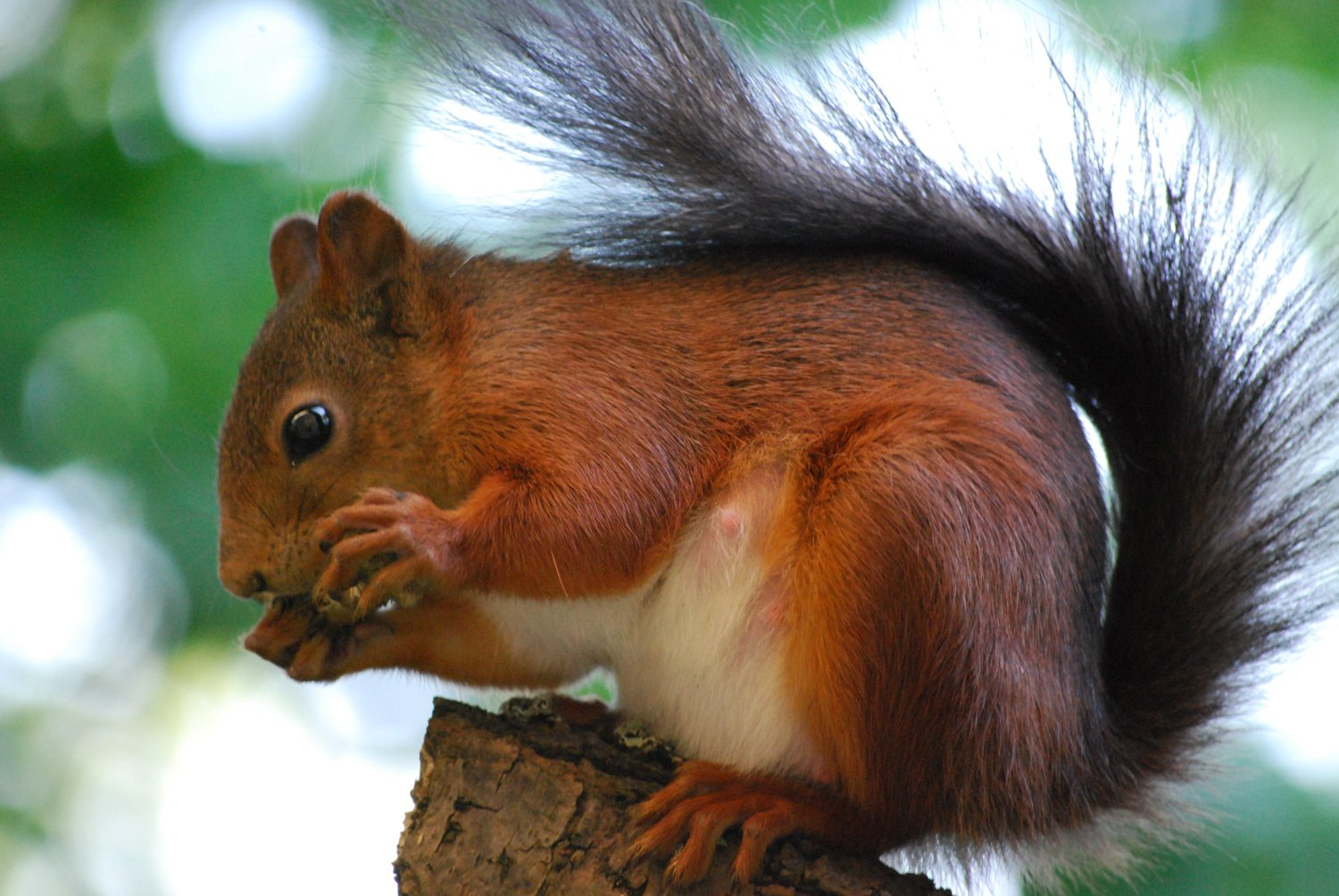 Red squirrel (Sciurus vulgaris) on a tree. Bromma, Stockholm, Sweden.